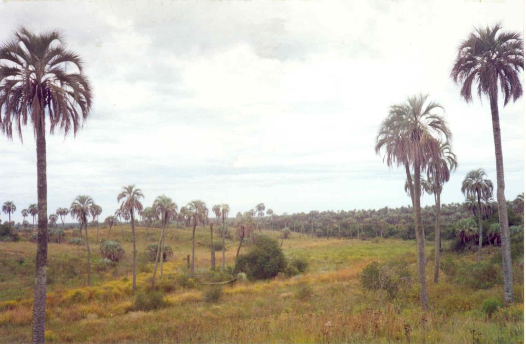 El Palmar National Park, in the province of Entre Ríos, Argentina, near the city of Colón and the Uruguay River. Most of the park is devoted to the preservation of a forest of Syagrus yatay (Yatay Palm) trees.